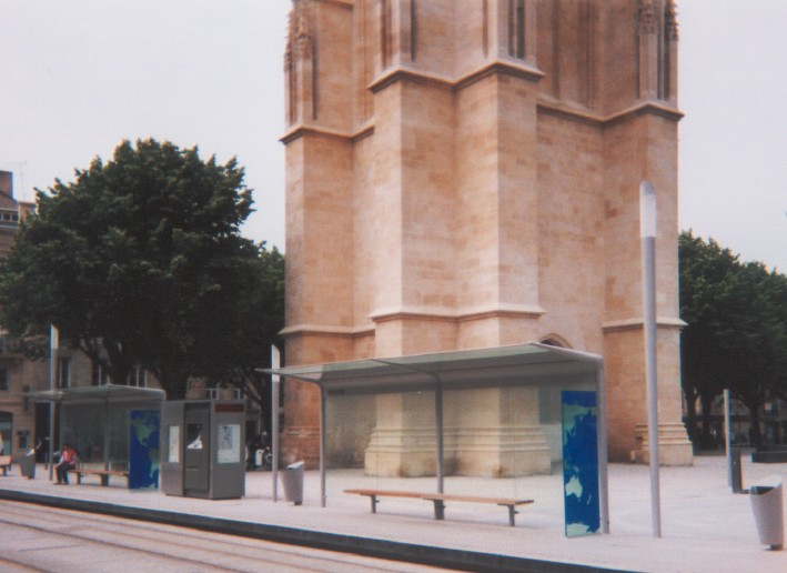 Station Hôtel de Ville in Bordeaux. The street furniture is designed by the architect Elizabeth de Portzamparc.